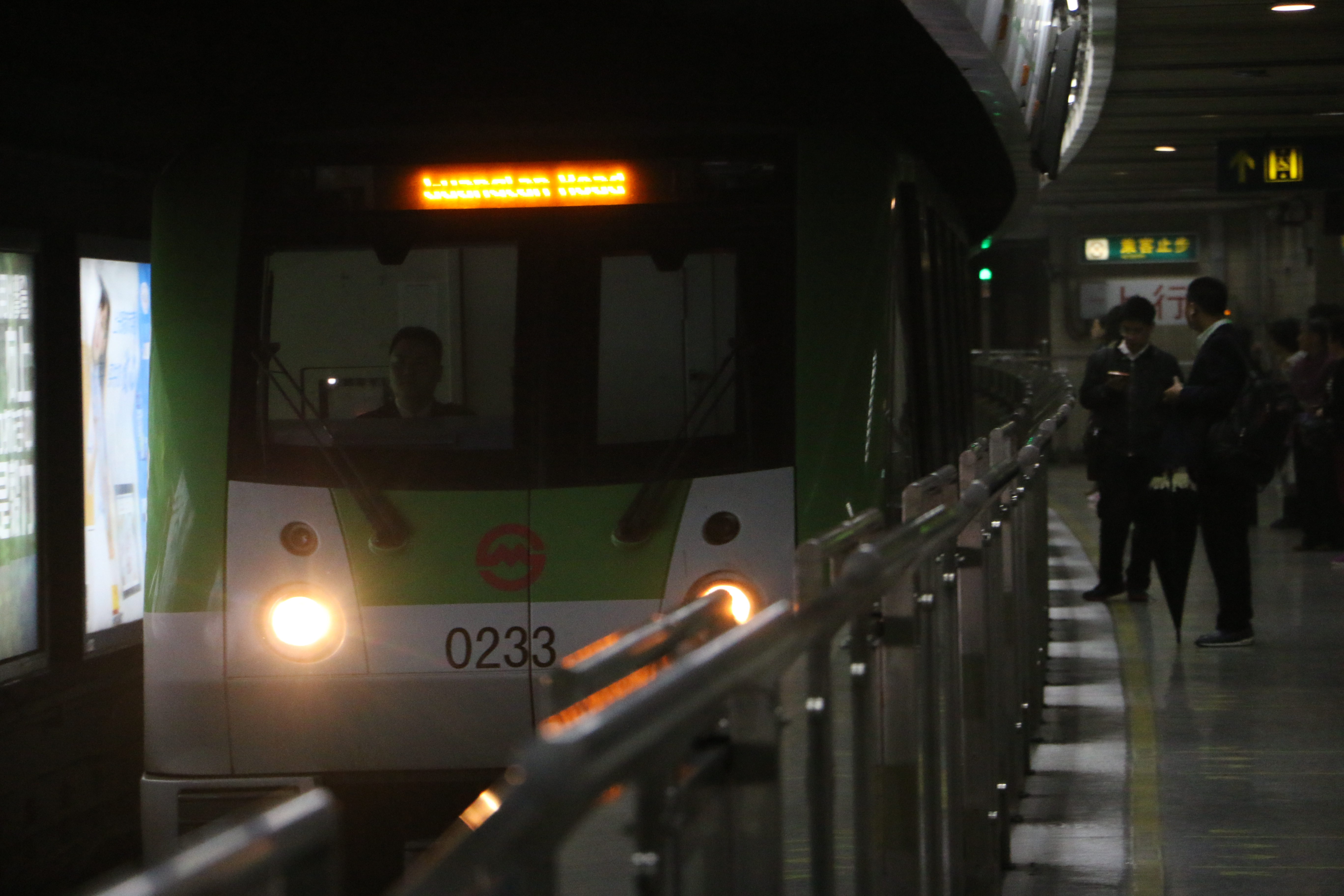 201604 AC08-233 enters Lujiazui Station